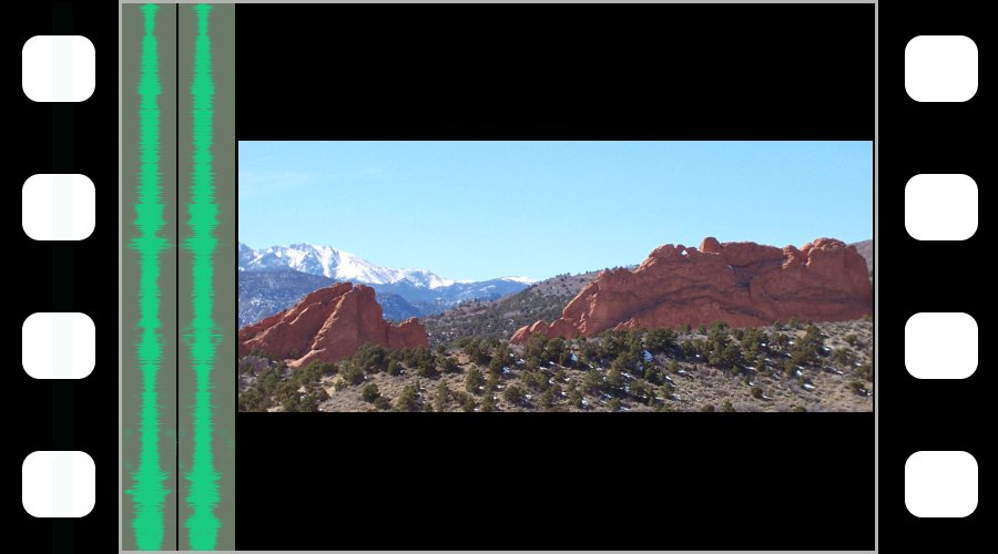 Illustration of anamorphic widescreen lens. Without an anamorphic lens, the available film area is not used completely; some of the film surface is wasted on the black bars.